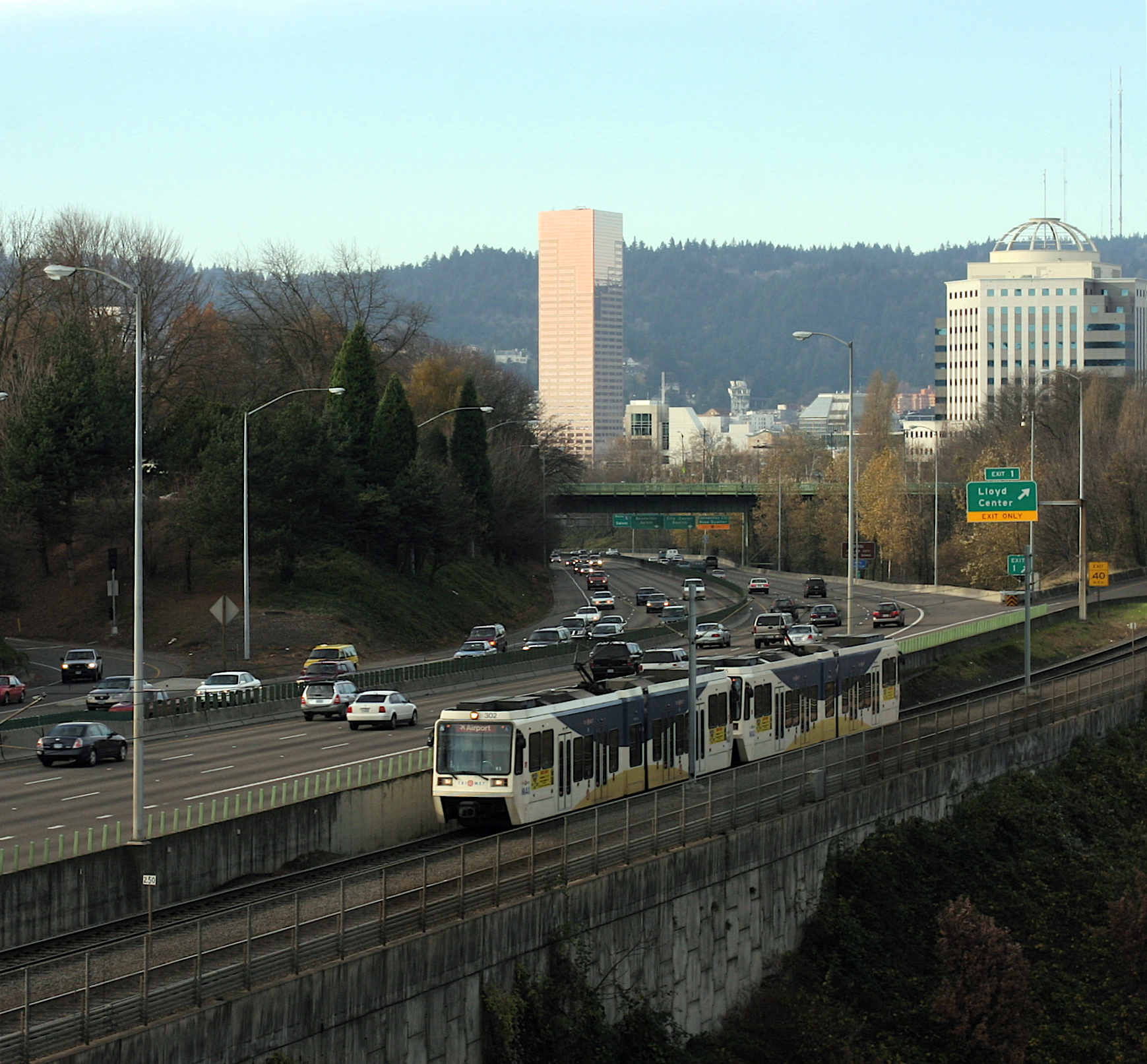 An eastbound train on the MAX light rail system in Portland, Oregon, next to the Banfield Freeway (Interstate 84).